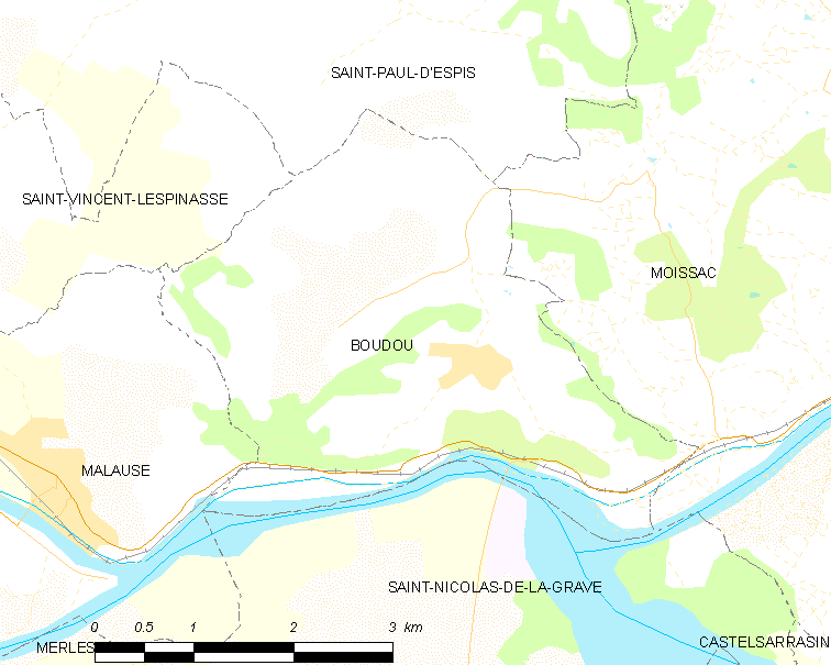 Map of French municipality Boudou